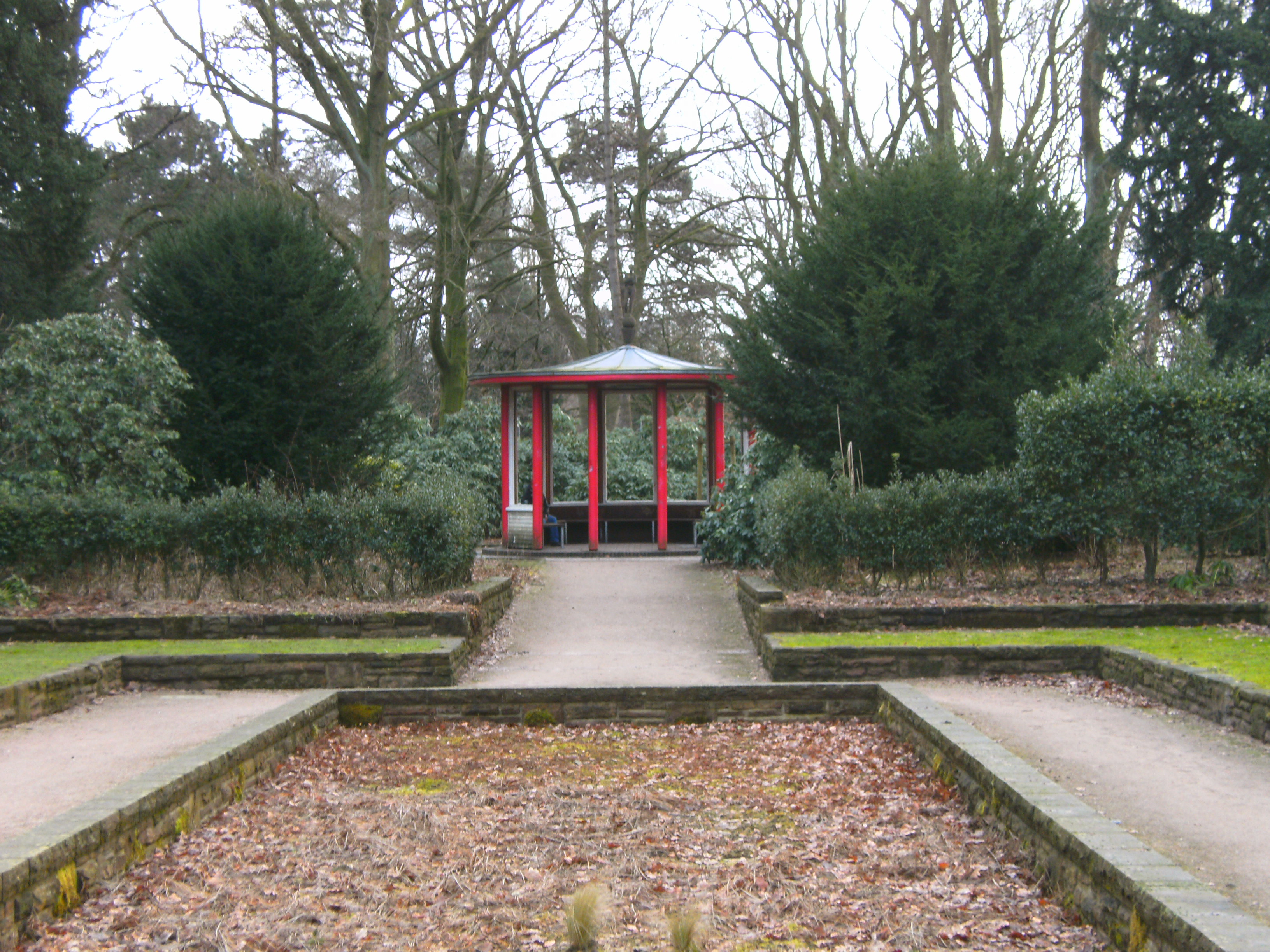 Hamburg Stadtpark (urban park): O'Swaldscher Pavillon (pavilion) at Südring/Ecke Otto-Wels-Straße.